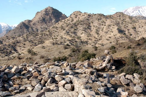 A U.S. Marine from Weapons Company, en:3rd Battalion, 3rd Marine Regiment, maintains an overwatch position Jan. 12, 2005, hours after his patrol was attacked just in the Khost province in Afghanistan. U.S. Army photo by Staff Sgt. Bradley Rhen source Ð¡Ð»Ð¸ÐºÐ°:Marine khost prov.jpg